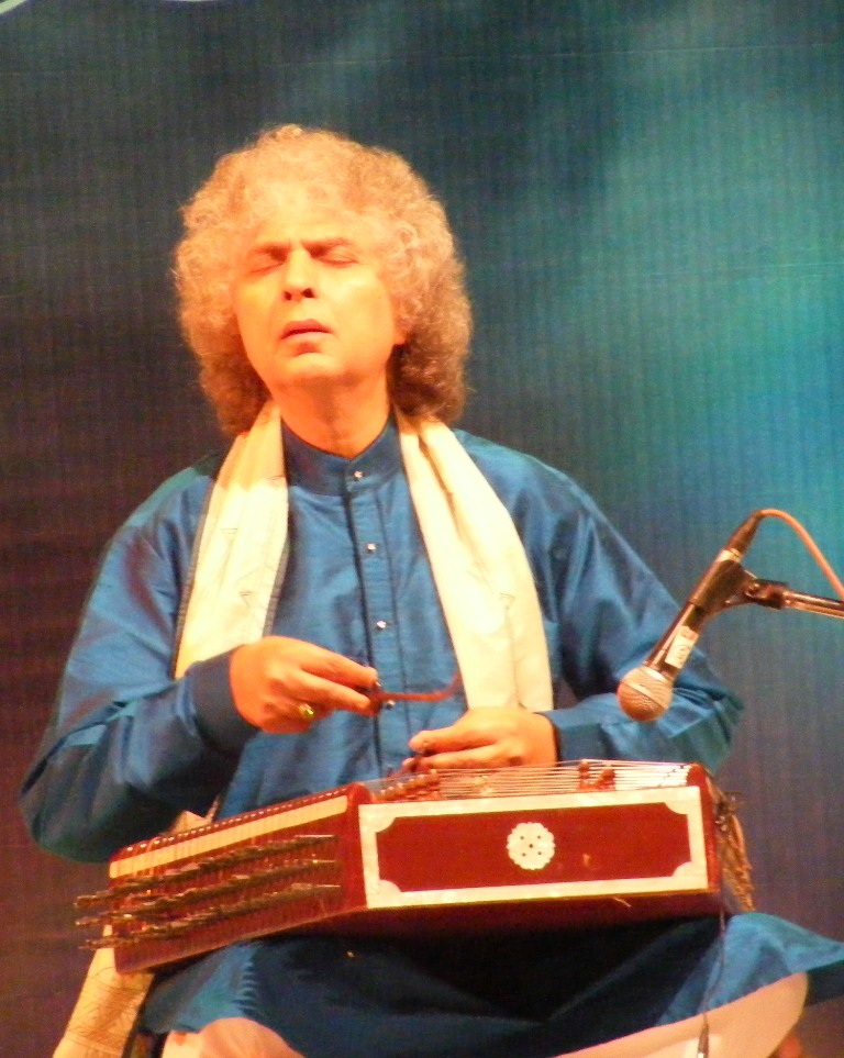 Live performance at Yeshwantrao Chavan Natyagriha, Kothrud, Pune